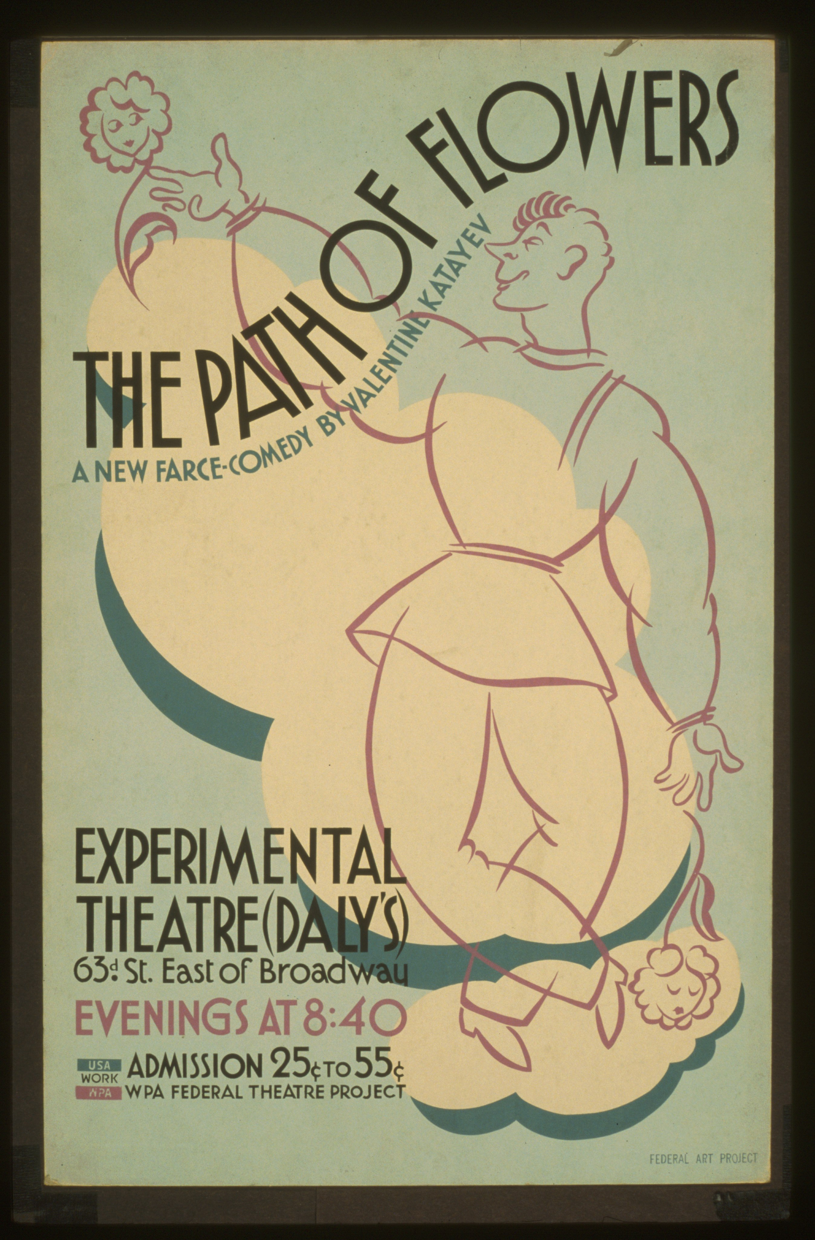 Title: "The path of flowers" Abstract: Poster for Federal Theatre Project presentation of "The Path of Flowers" at the Experimental Theatre (Daly's), 63rd St. east of Broaday, New York City, New York, showing drawing of a man with flowers. Physical description: 1 print on board (poster) : silkscreen, color. Notes: Work Projects Administration Poster Collection (Library of Congress).